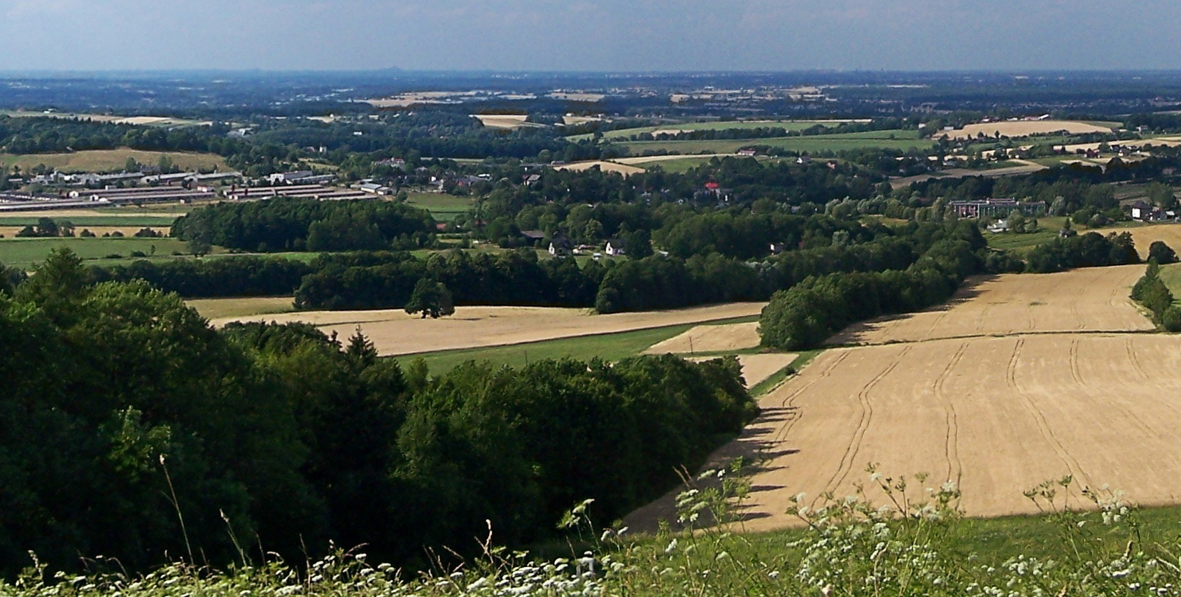 View on Knajka river origins from the Chełm mountain near Goleszów (Poland).